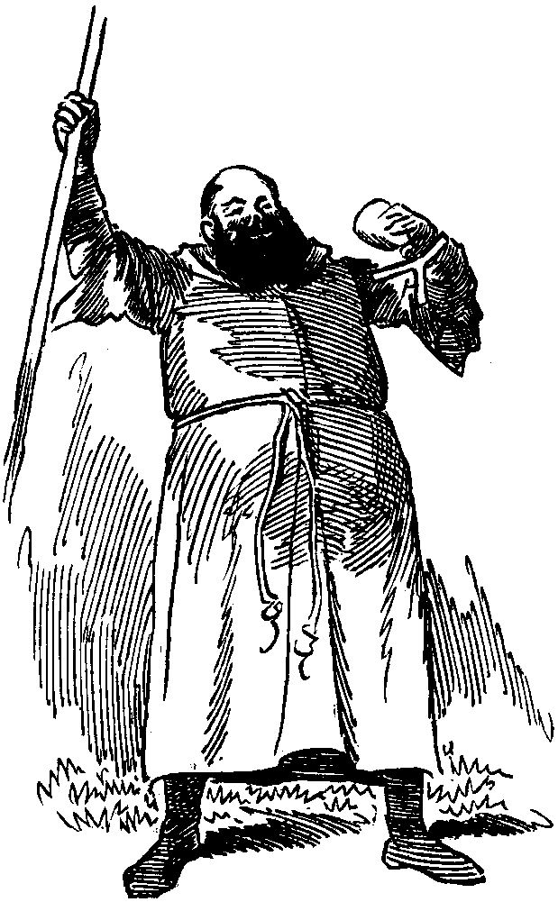 Illustration of Avon Saxon as Friar Tuck in the opera Ivanhoe (1891) by Arthur Sullivan and Julian Sturgis at the Royal English Opera House, taken from Punch magazine.